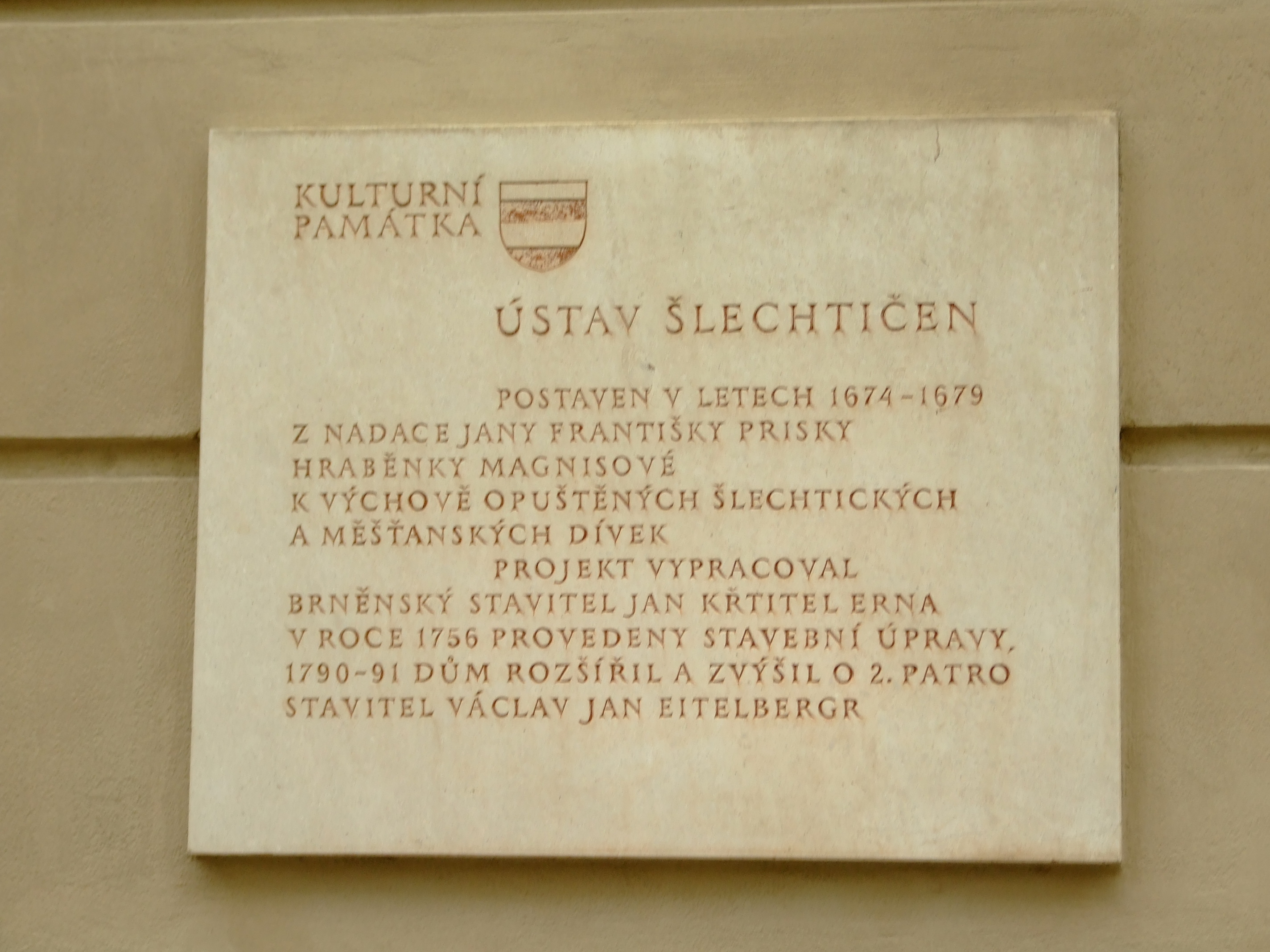 A memorial plaque on the building of the Ústav Šlechtičen in Brno, South Moravian region, CZhelp